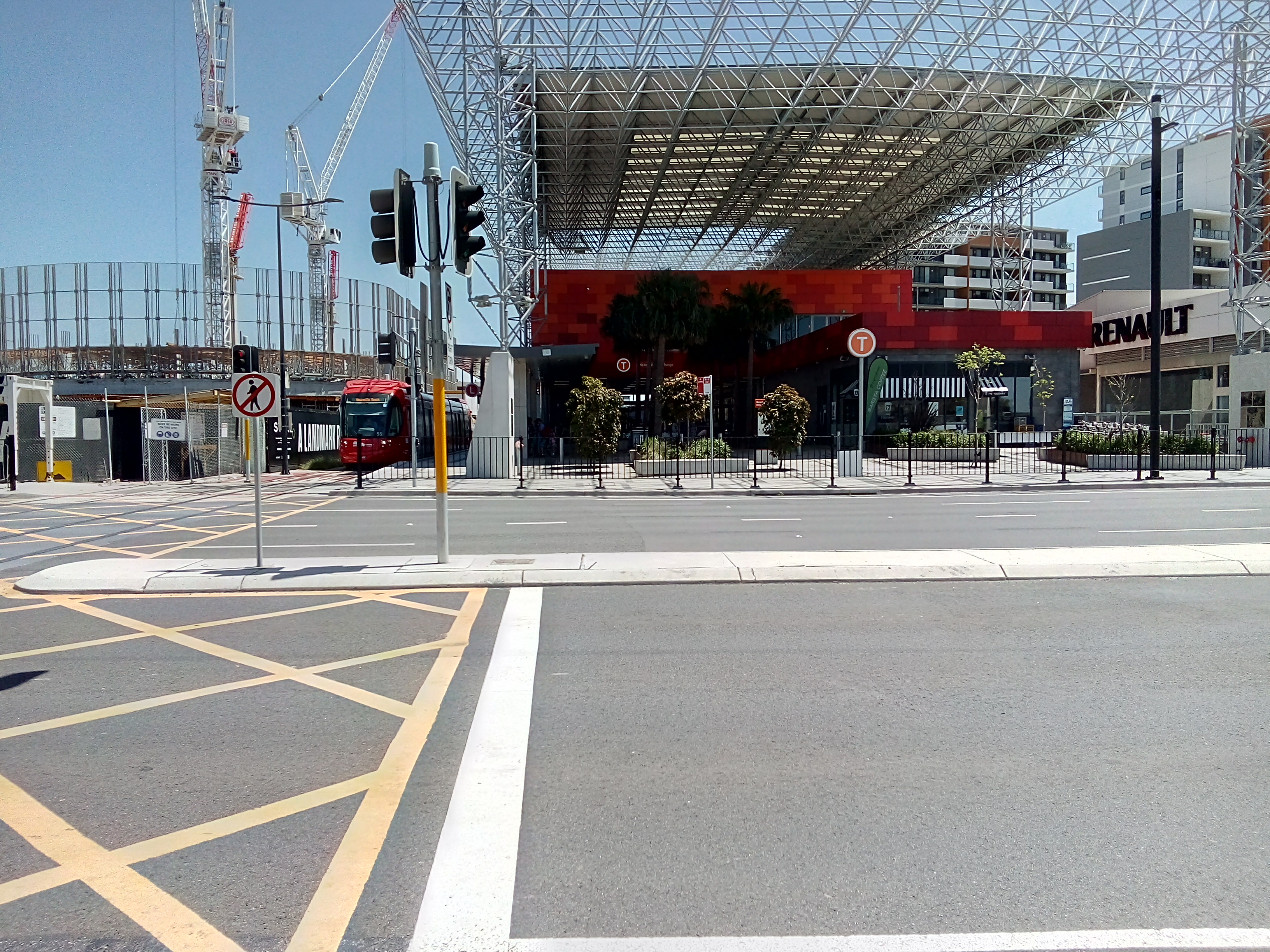 A picture of the Newcastle Interchange Train and Light Rail station. Located in Newcastle NSW Australia